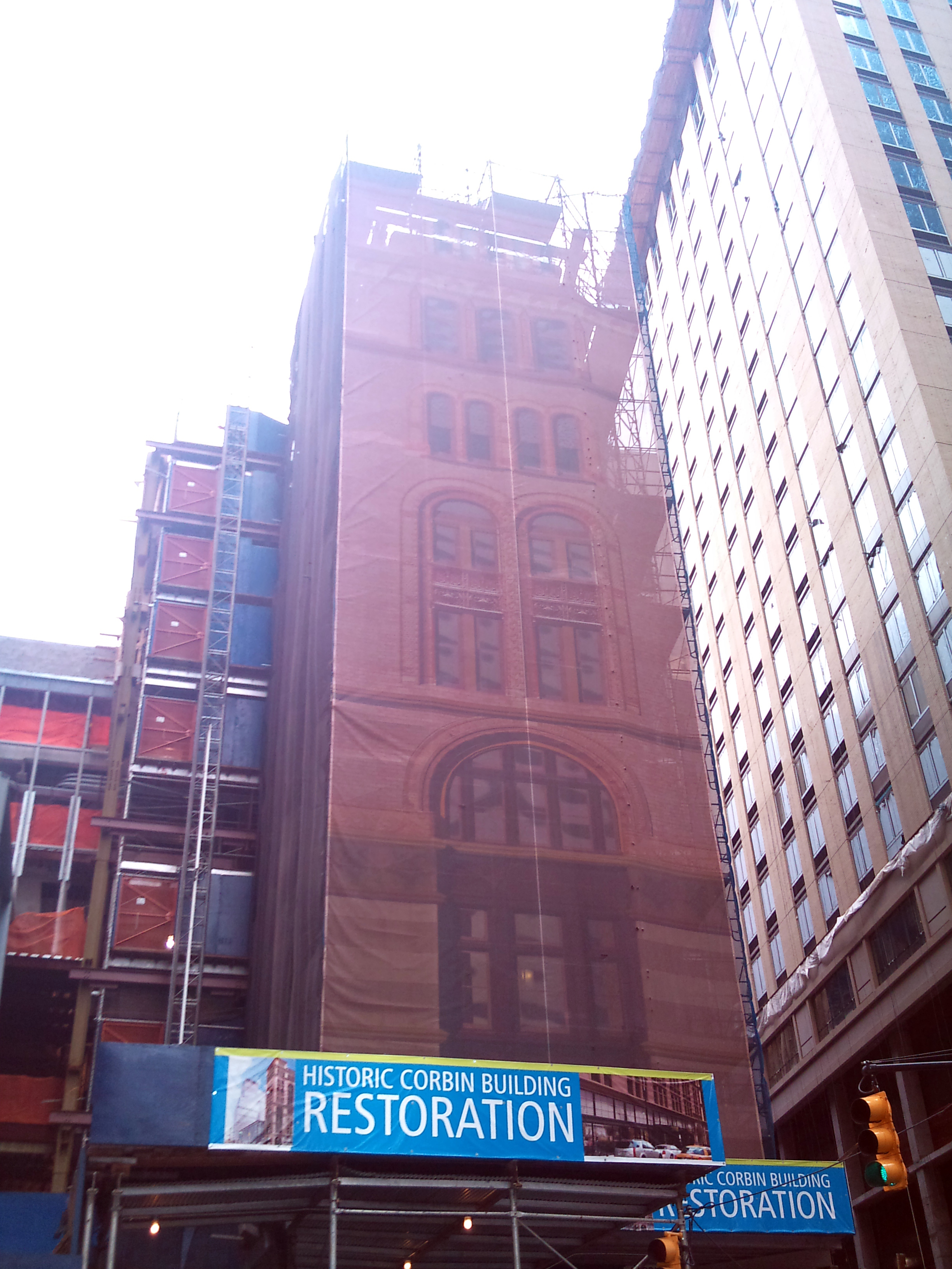 Corbin Building under rehabilitation, taken at the northwest corner of Dey Street and Broadway in the Financial District of Manhattan, New York City.